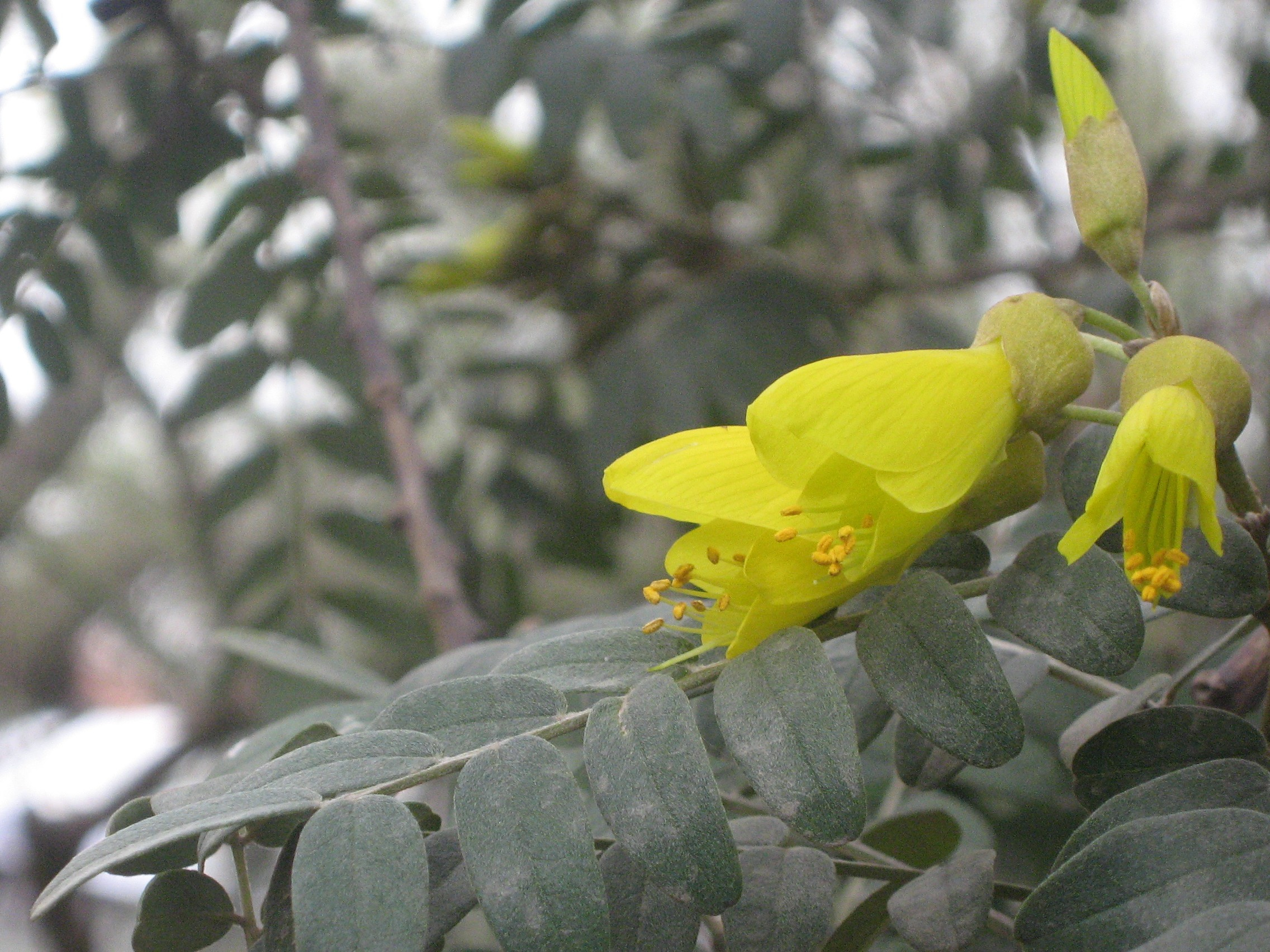 Sophora macrocarpa ex hortus, vernacular name mayu. Endemic in Chile